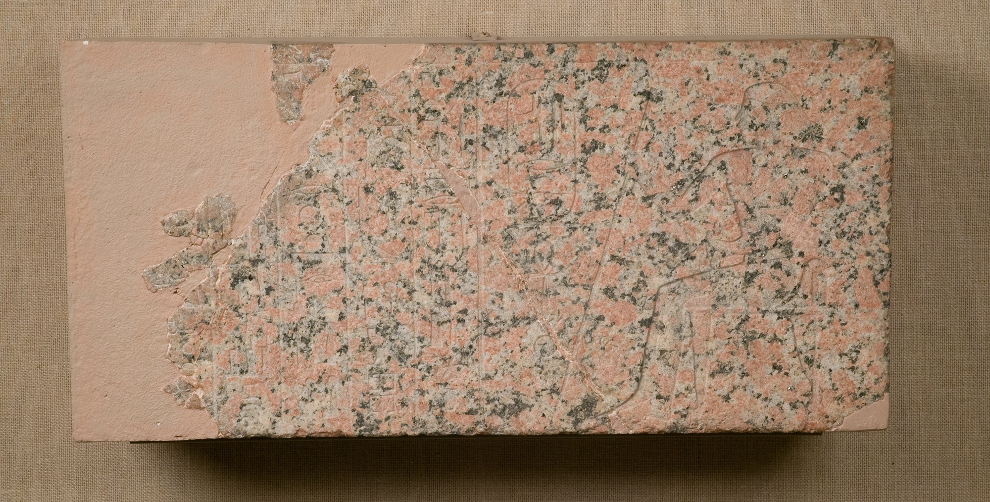 Door Lintel, Senwosretankh